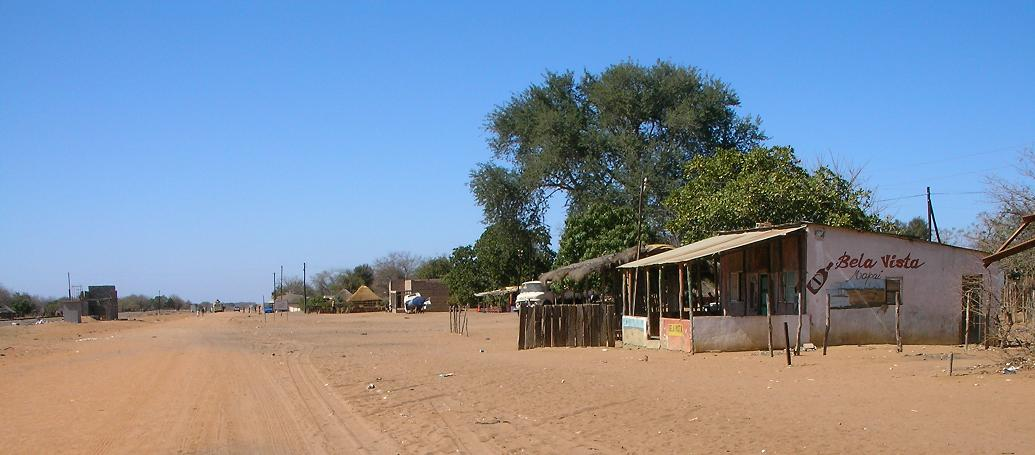 Photo of Mapai, Mozambique taken at 9:31 AM local time. Notice the rail line on the left. Camera is looking south.